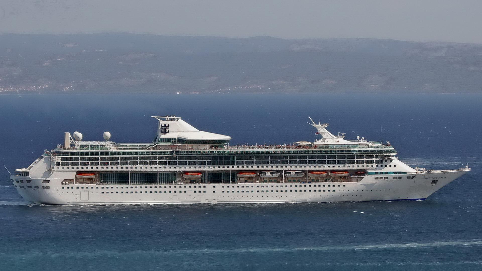 Splendour of the Seas at Split, Croatia, on 2011-0716.